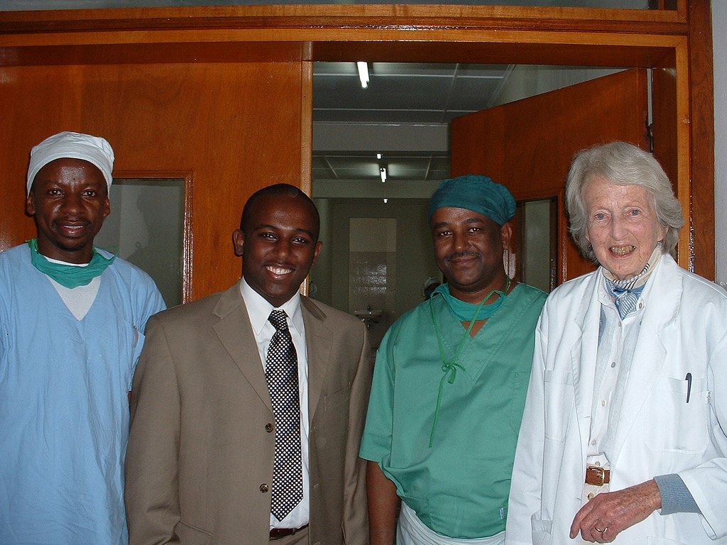 Australian obstetrician and gynaecologist Catherine Hamlin (born 1924), member of the Order of Australia and recipient of the 2009 Right Livelihood Award, with young doctors from Africa at the Addis Abeba Fistula Hospital which was founded in 1974 by her and her husband Reginald Hamlin (1908-1993)